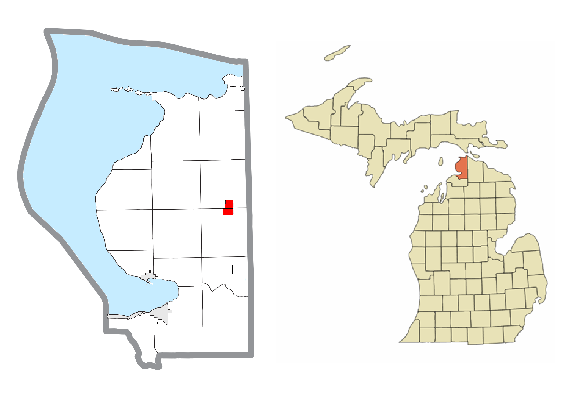 Pellston, MI